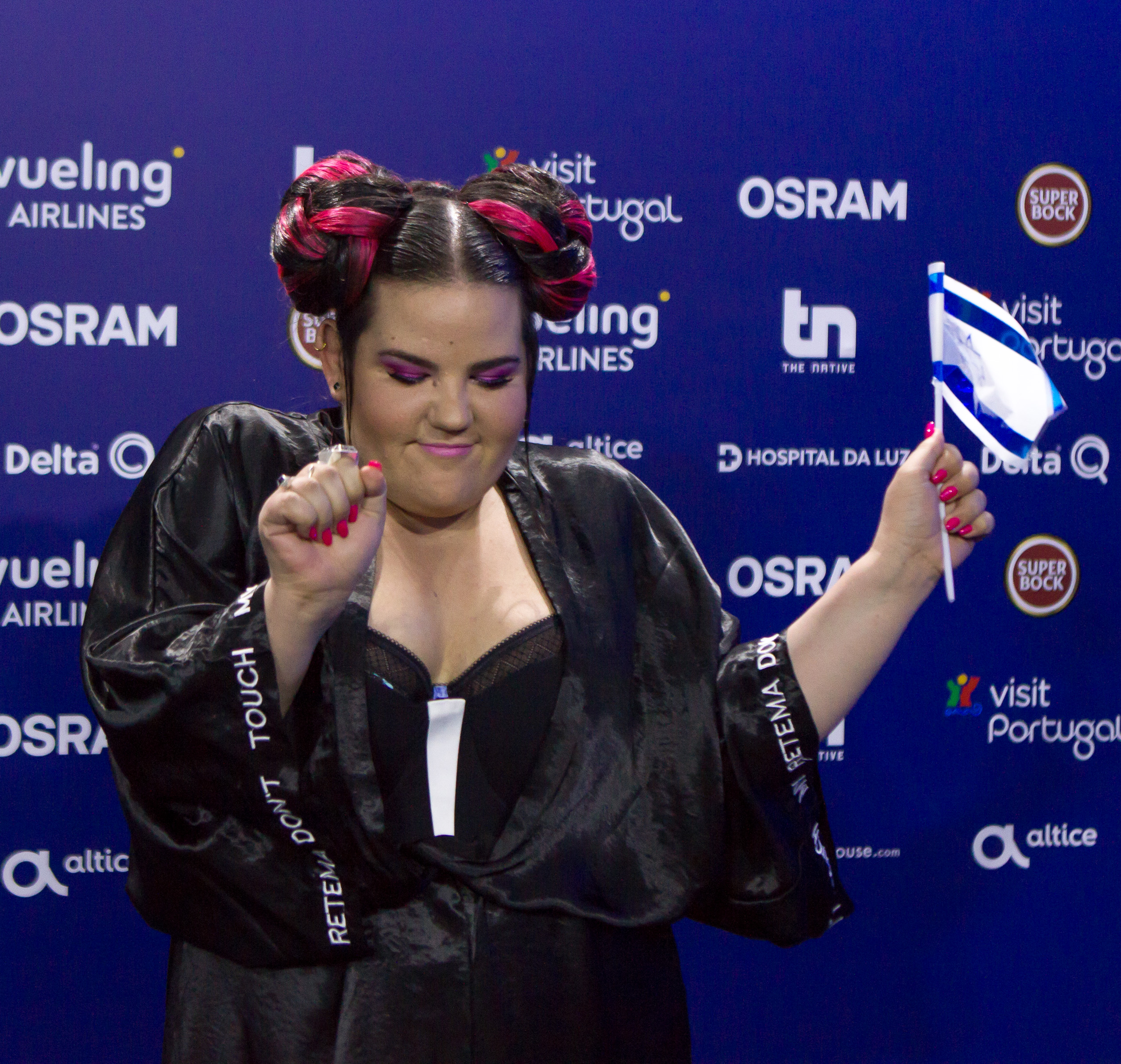 Press conference after the first Semi-Final of the 2018 Eurovision Song Contest